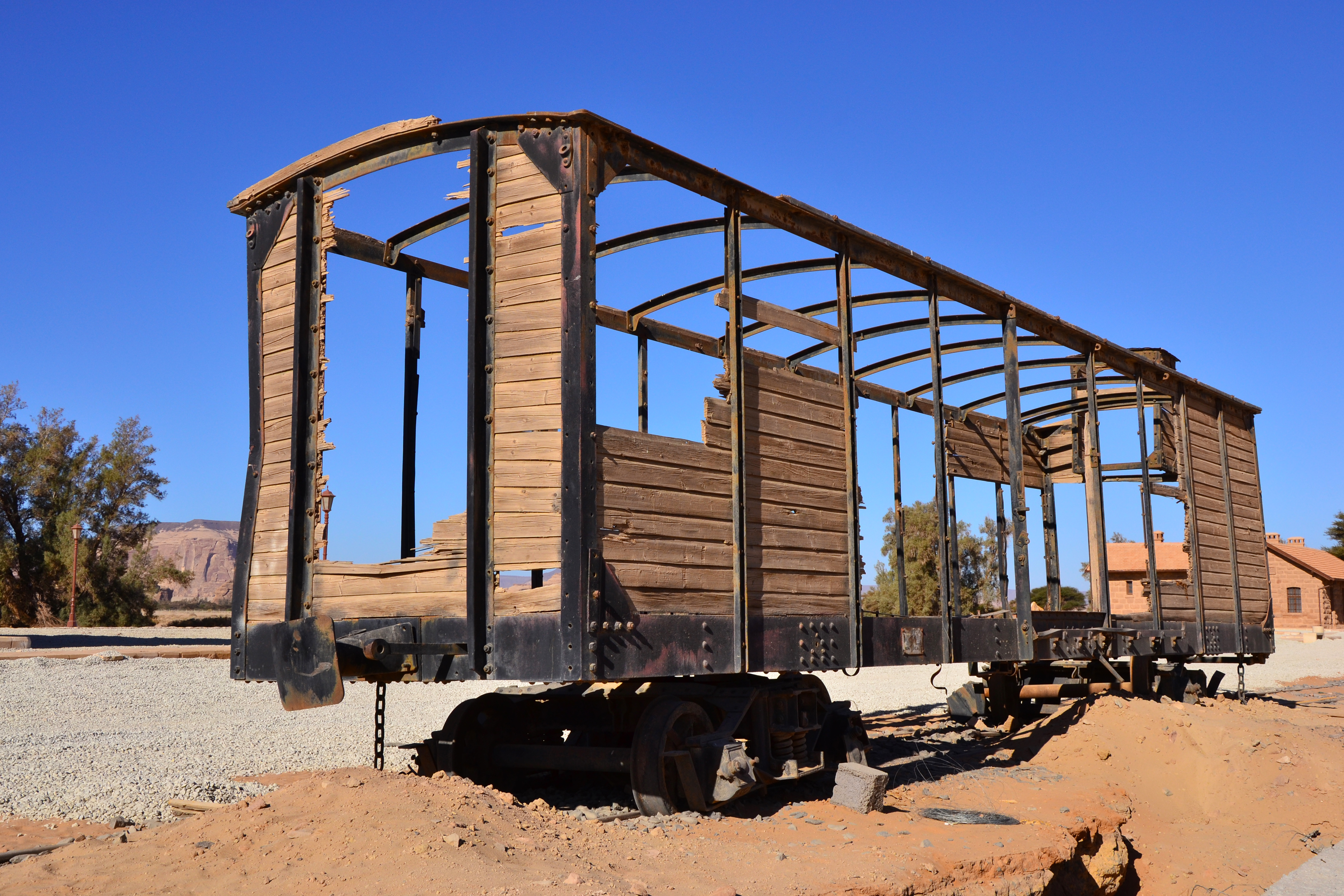 A taste of Belgian history in Arabia!